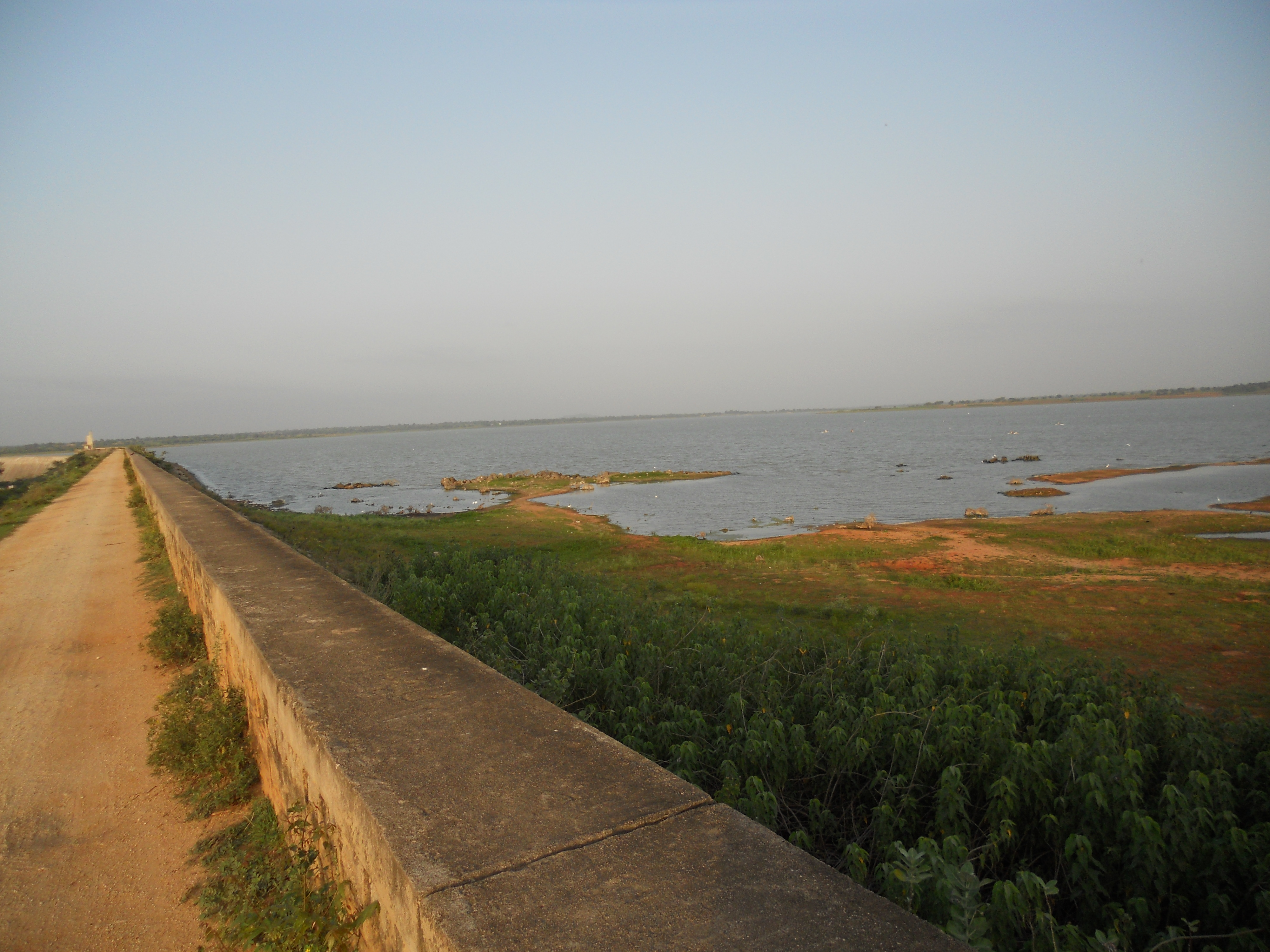 Dindi reservoir stands on River Krishna near the place called Dindi on the way to Srisailam from Hyderabad